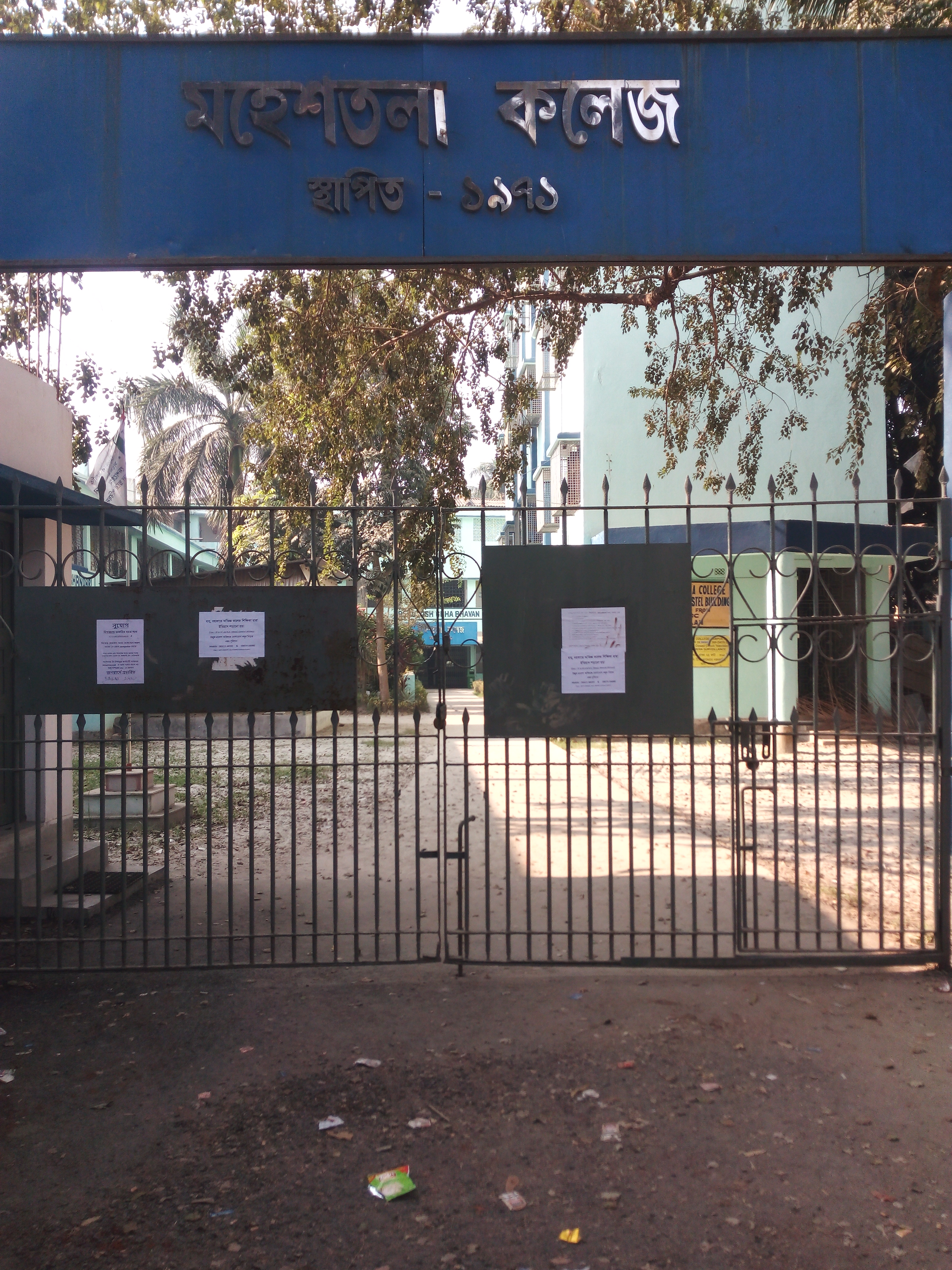 Entrance of Maheshtala College, Batanagar, Maheshtala, West Bengal - 700140